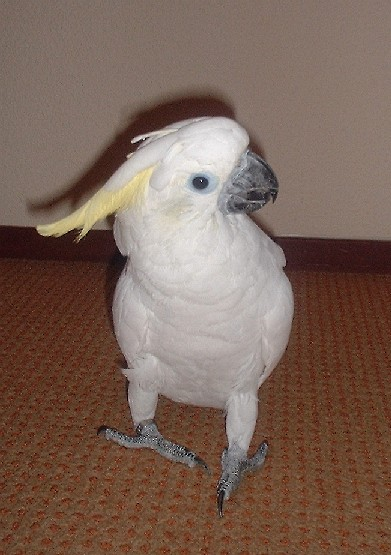 A pet Triton Cockatoo.